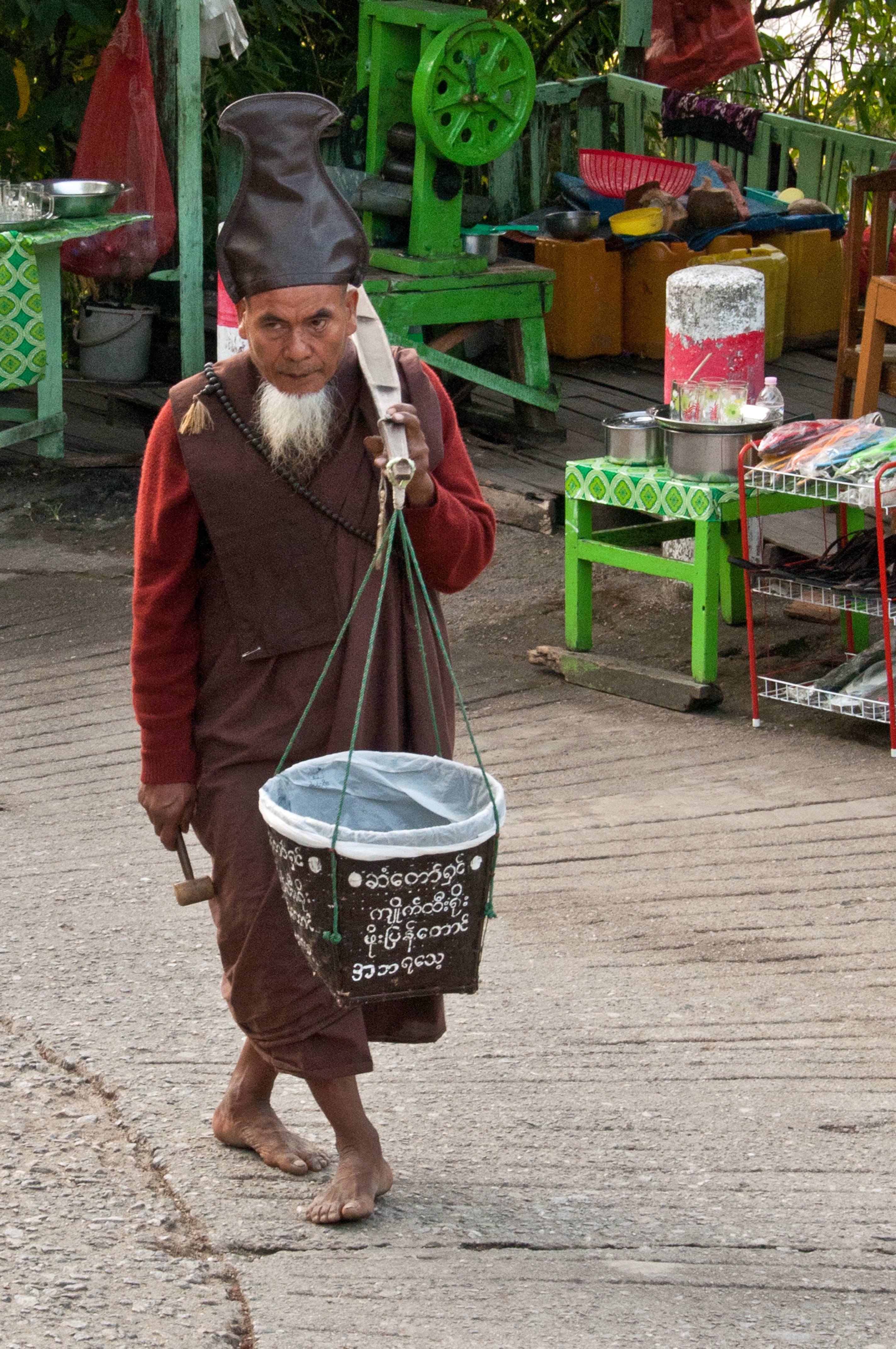 Hermit on his way to the Mt. Kyaiktiyo topမြန်မာဘာသာ: ရသေ့